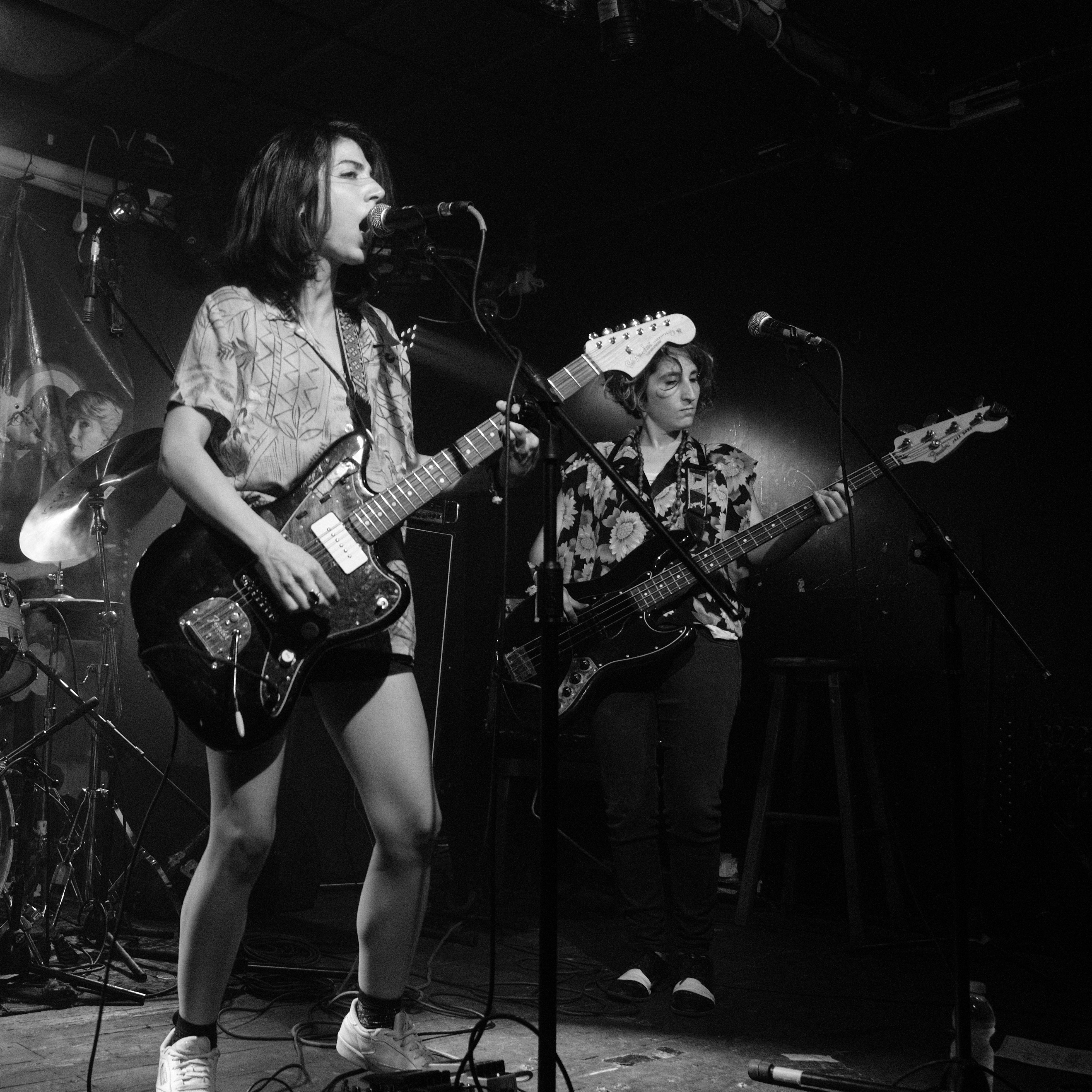 Haze'evot at the Indie Negev festival, 2018